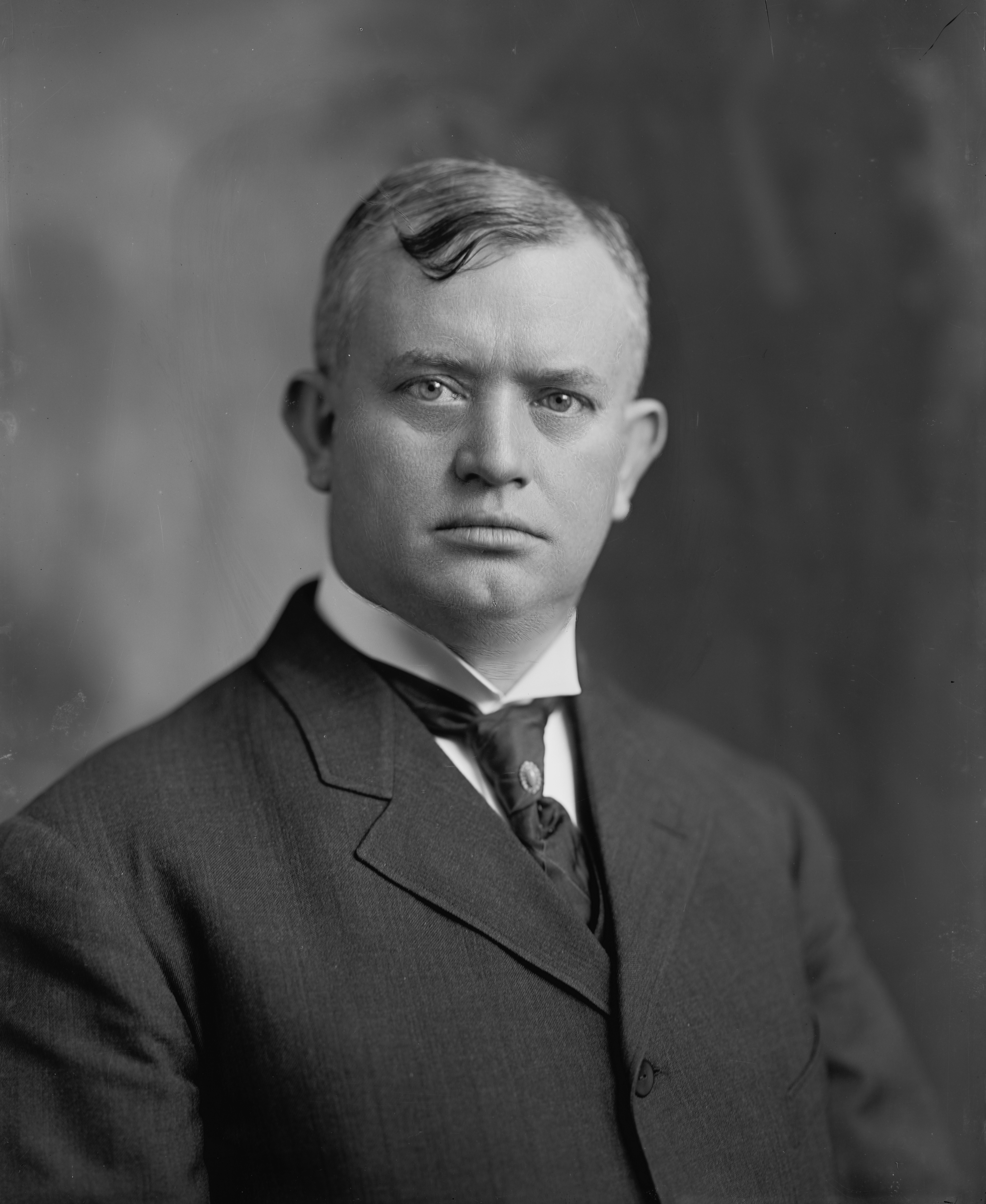 Title: HOGGATT, W.B. GOVERNOR Abstract/medium: 1 negative : glass ; 8 x 10 in. or smaller